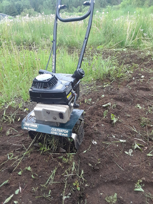 Craftsman Cultivator in East Haven, Vermont.